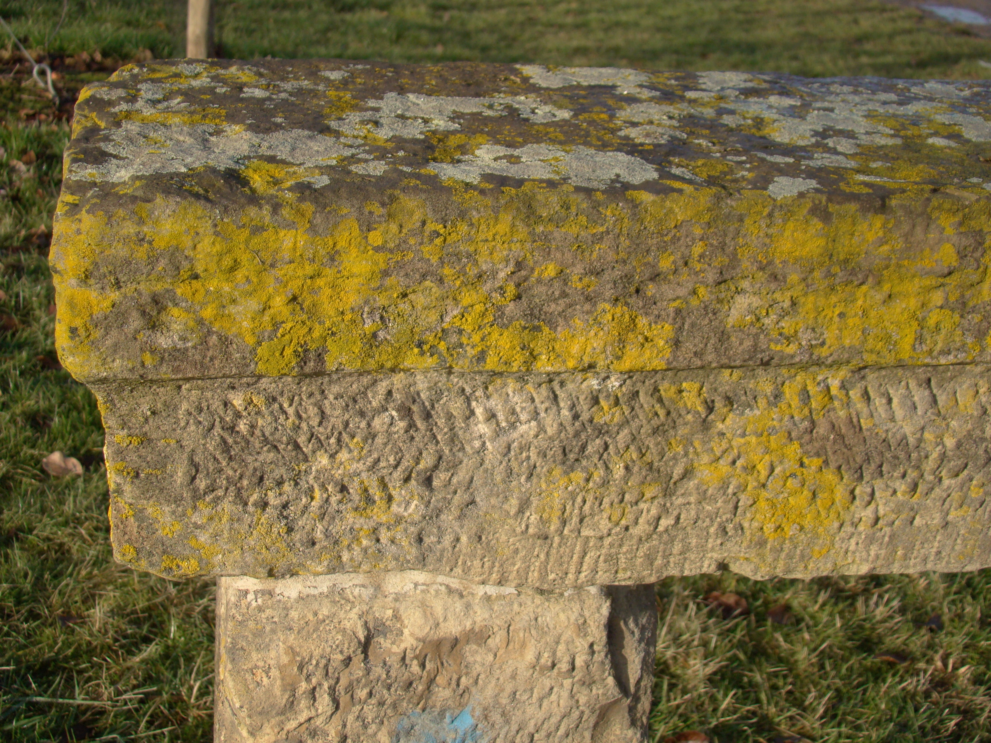 Old stone rest bench near Erligheim, detail